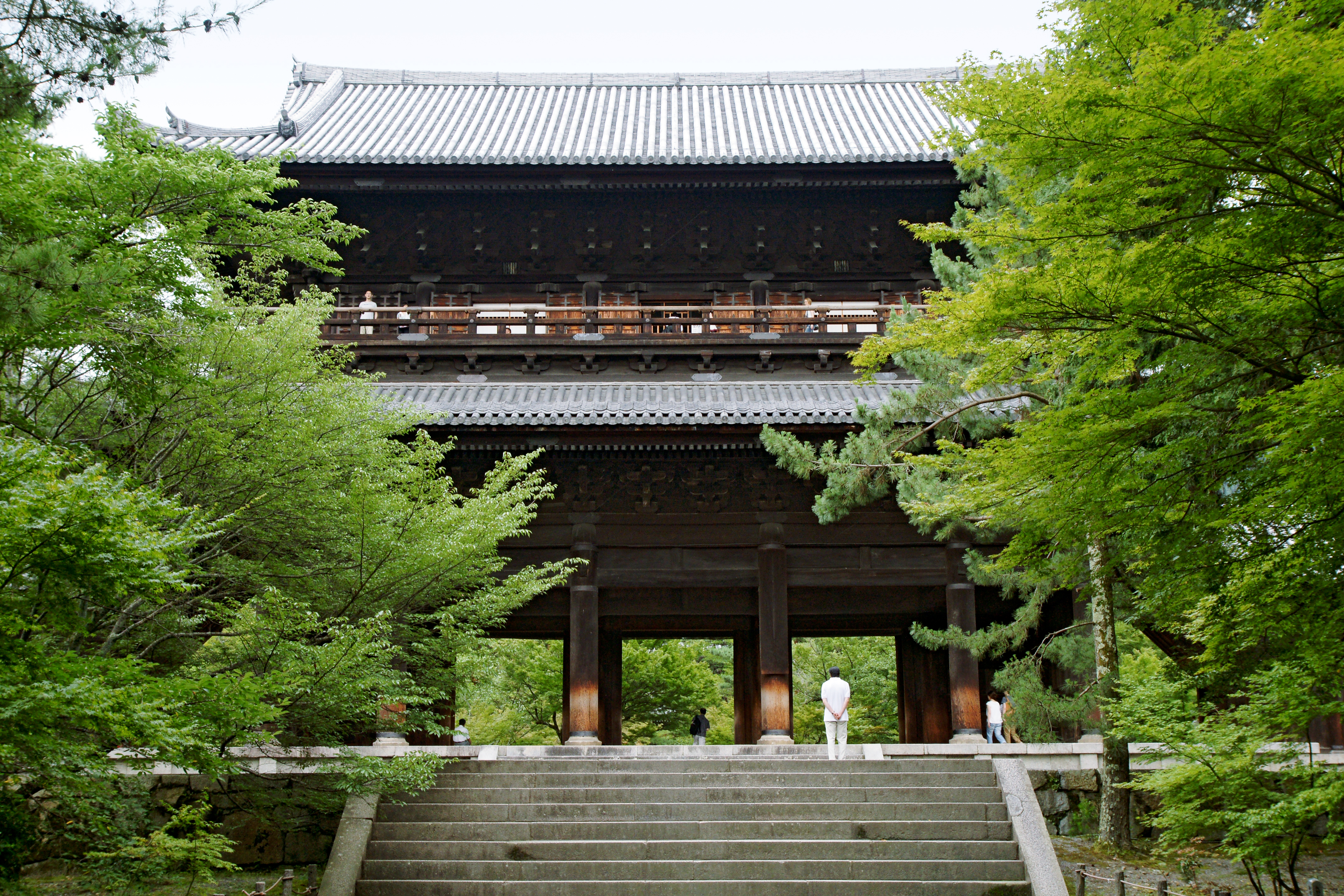 Nanzenji in Sakyo-ku, Kyoto, Kyoto prefecture, Japan